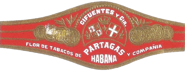 Partagás Cigar Label